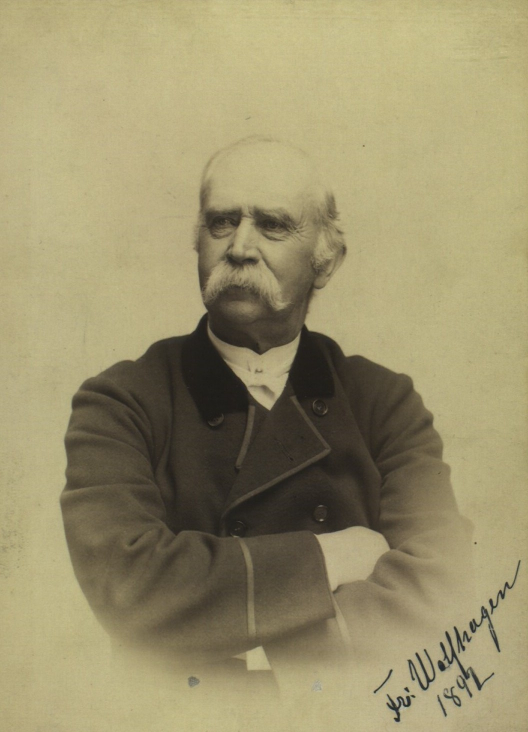 Friedrich Hermann Wolfhagen (1818-1894), Danish civil servant and politician, Minister of Schleswig